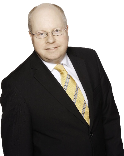 Morten Høglund